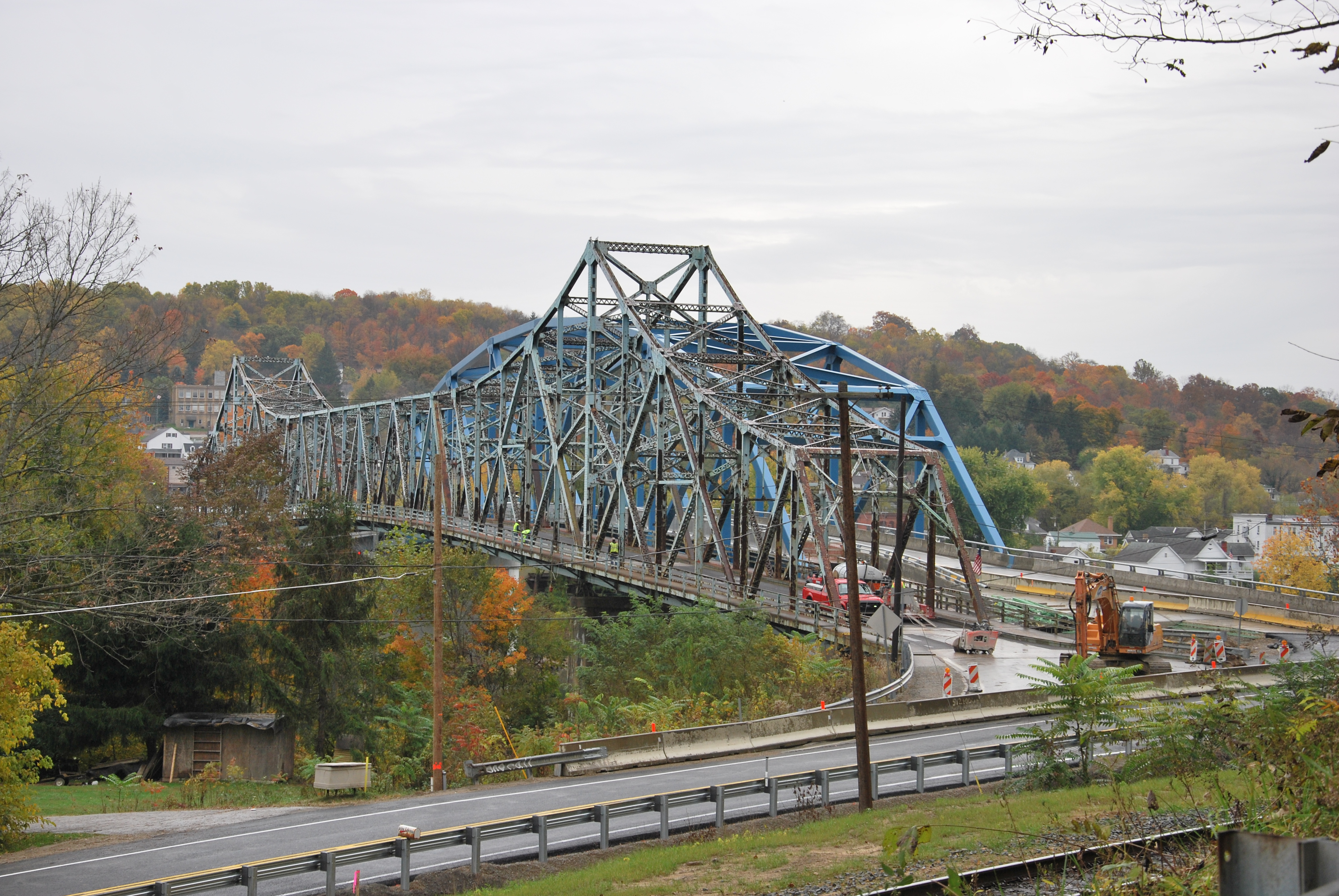 1930 and 2009 versions of the Albert Gallatin Memorial Bridge over the Monongahela River.